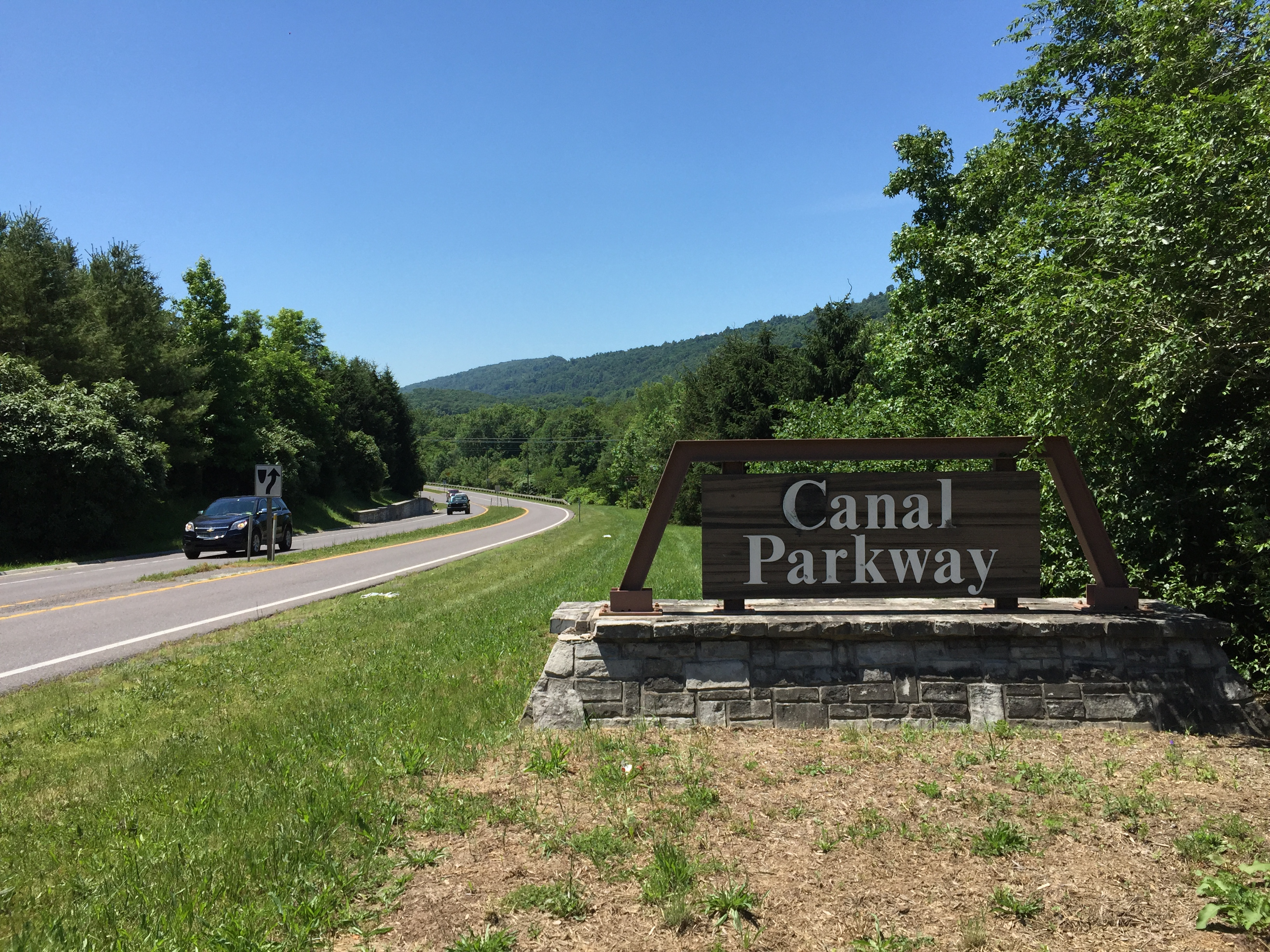 View south along Maryland State Route 61 (Canal Parkway) just north of Elder Street in Cumberland, Allegany County, Maryland